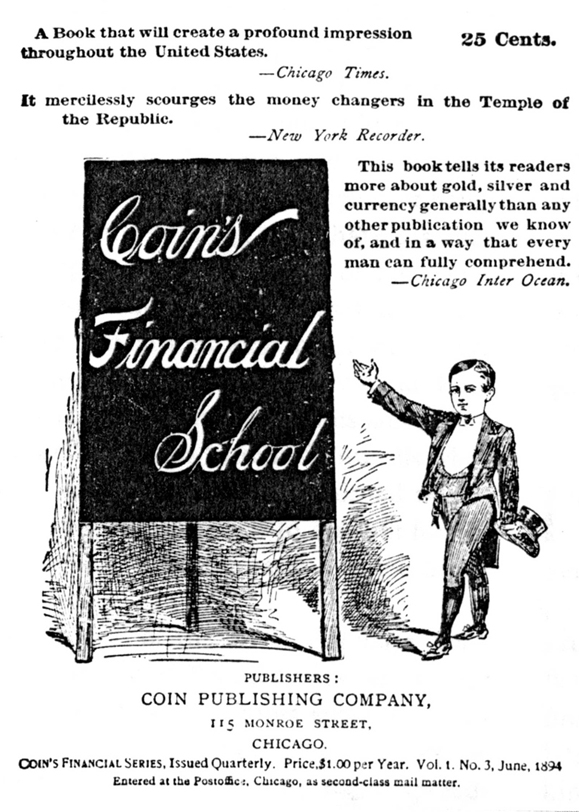 Cover of the 1893 pamphlet by William Hope Harvey